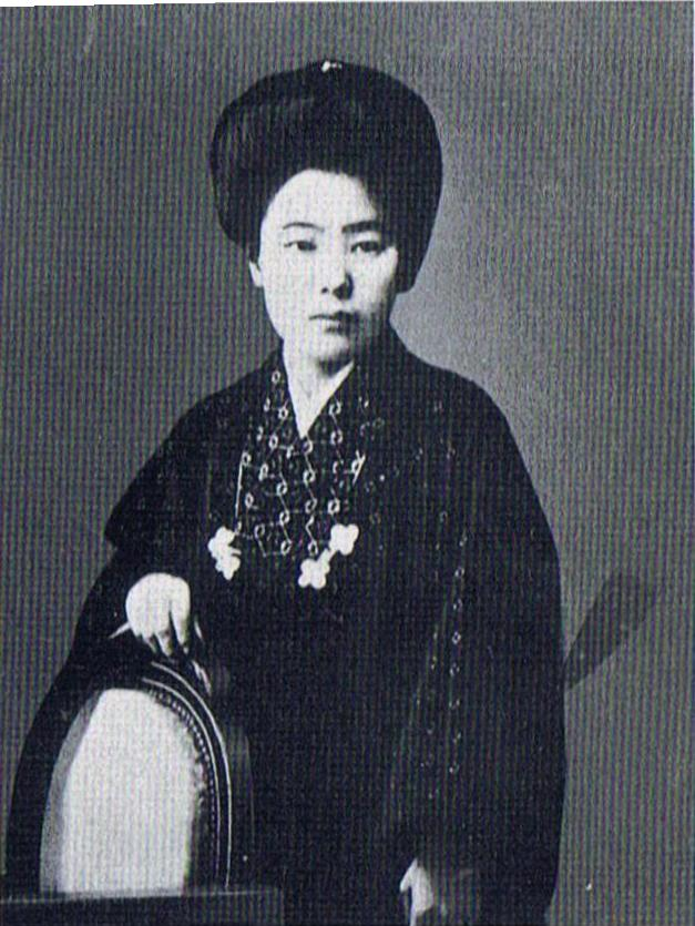 Wakao MAEDA